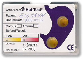 Photograph of an negative (yellow) Helicobacter-Urease-Test-Kit (short HUT-Test). A positive Test would have turned red within minutes our hours.